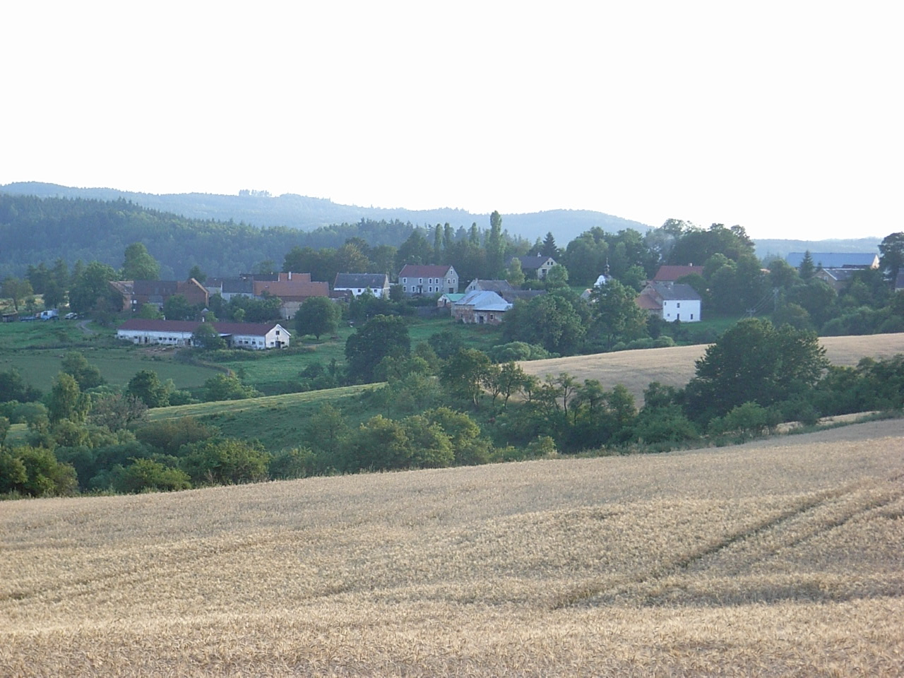 Verušice